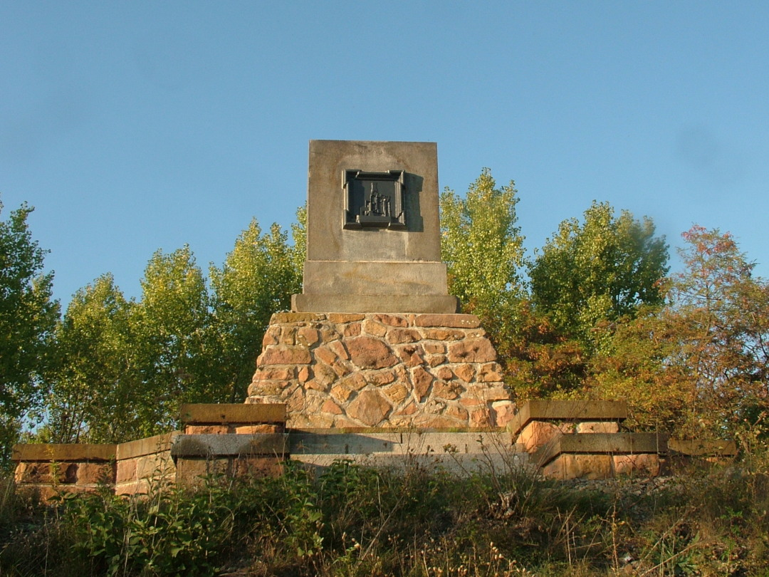 The "Maschinendenkmal" ("machine monument") near Hettstedt on Ocotober 2nd, 2011. This monument commemorates the commissioning of the first steam engine in the Mansfeld area in 1785.